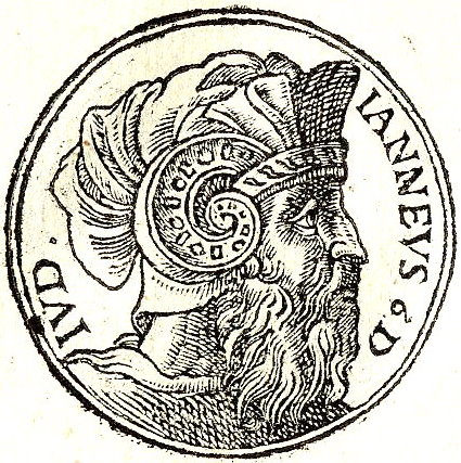 Alexander Jannaeus was a son of John Hyrcanus, inherited the throne from his brother Aristobulus, according to the Biblical law of Yibum ("levirate marriage"), although Josephus is inexplicit on that point.